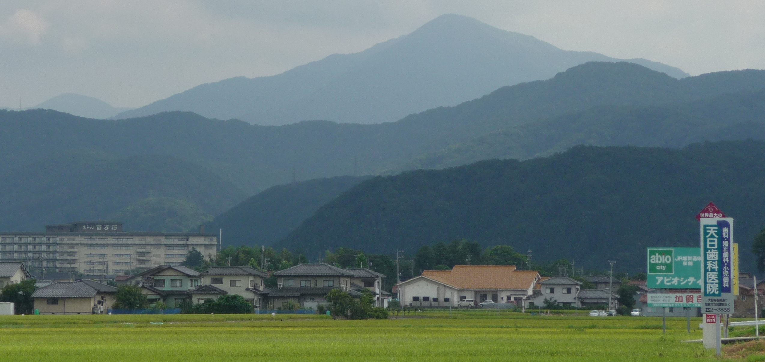 Mount Fujishagadake(942 metres) which Kyūya Fukada climbed at 12 years old and attracted for mountain climbing.